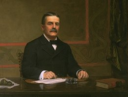 Charles S. Fairchild, former United States Secretary of the Treasury